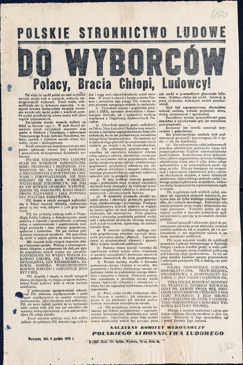 Election address of Polish People's Party (1945–1949), December 1946